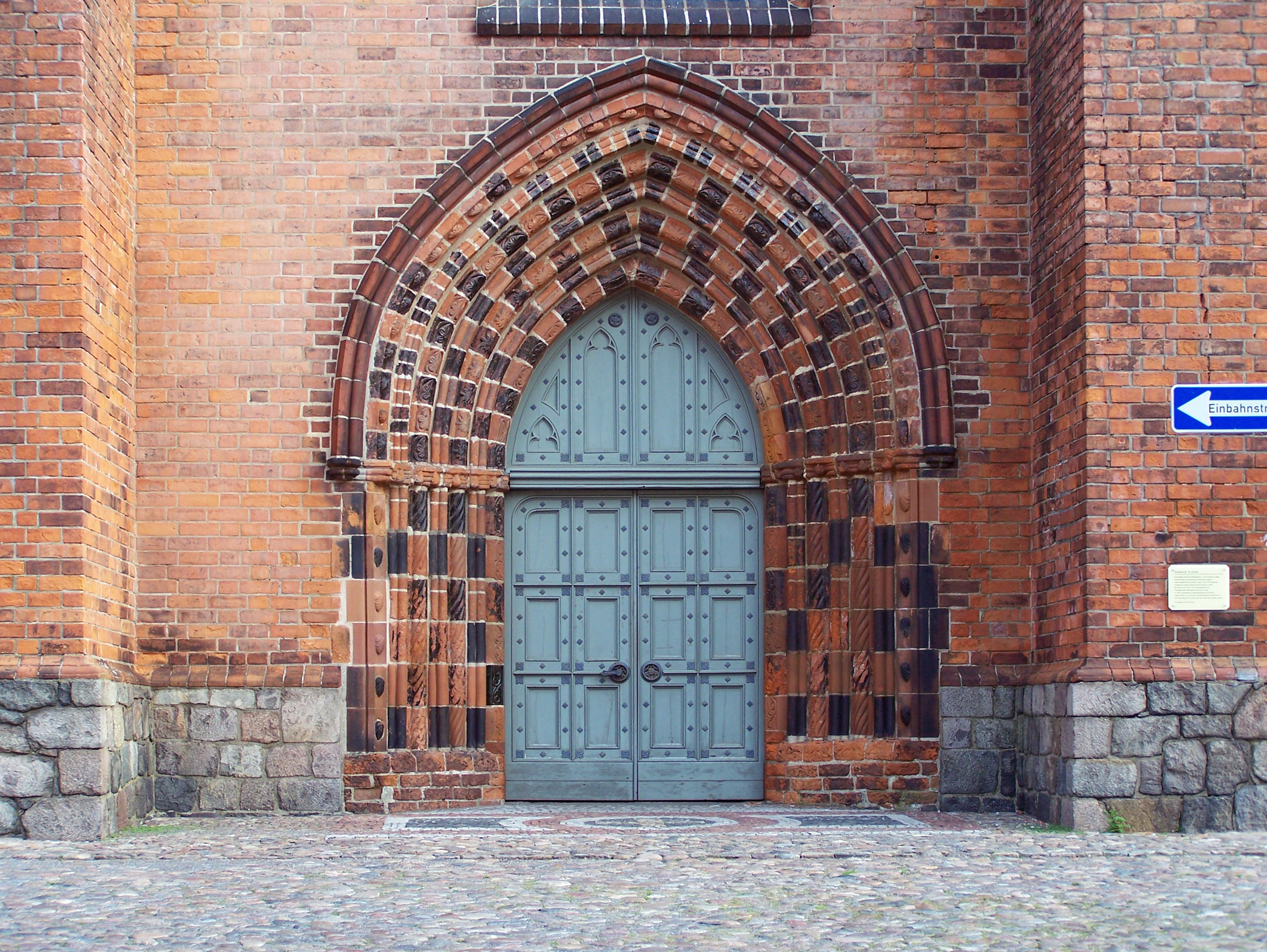 Perleberg: St.Jakobi church built in late Gothic hall style, dating back to 1294.